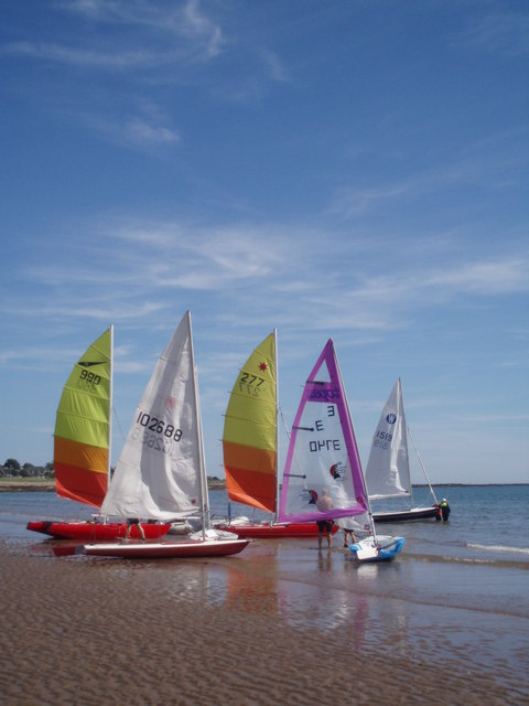 Sunday Sailing The Carnoustie Sailing Club sails from late spring, right through the summer months on Mondays, Wednesdays(race night) and on glorious Sundays like today!